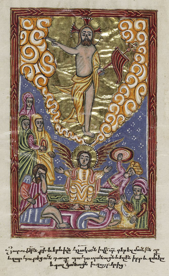 The Women at the Sepulchre. From Illuminated Armenian Gospels with Eusebian canons. Shelfmark MS. Arm. d.13.